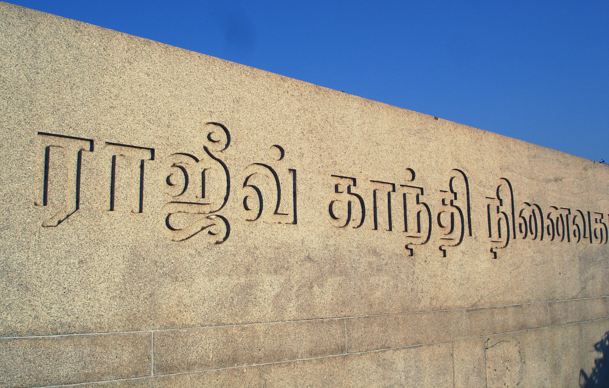 The entrance of the Rajiv Gandhi Memorial. Reads "Rajiv Gandhi Nilayvaku" in Tamil.